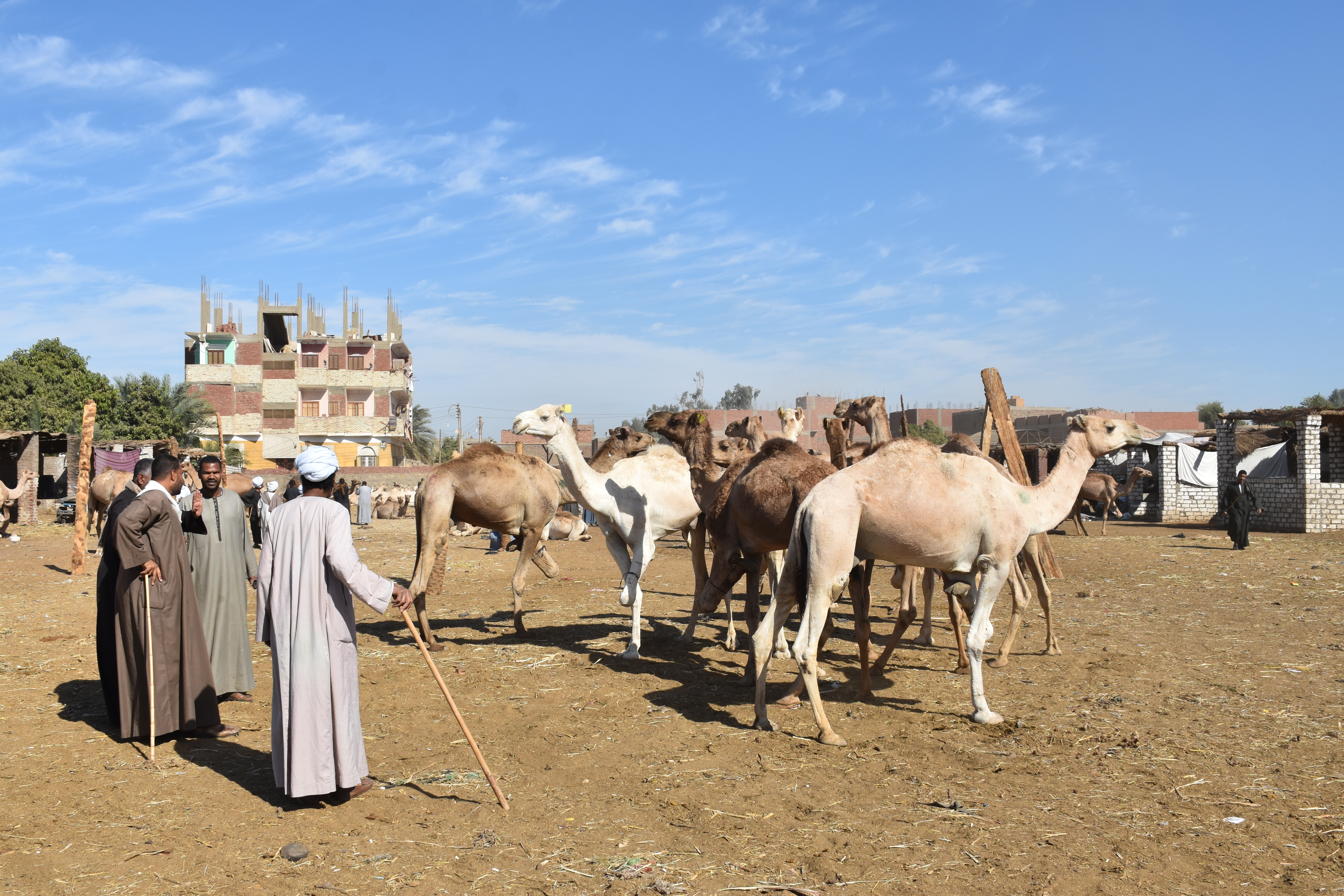 Camel market at Daraw, photo by Hatem Moushir